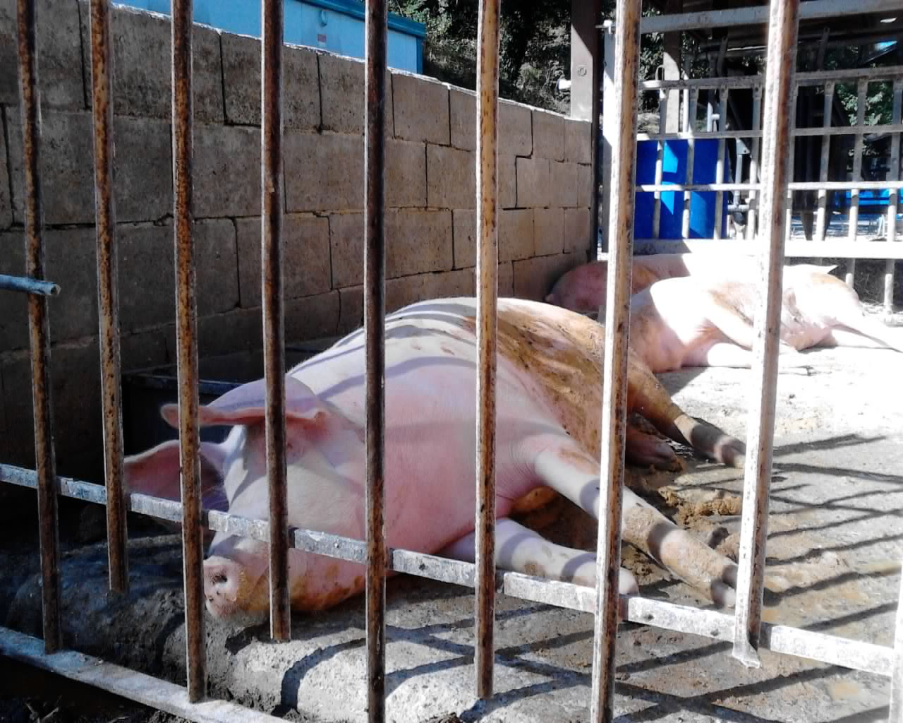 Sleeping Pigs in Italy